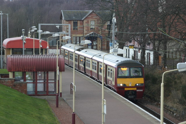 Balloch Station